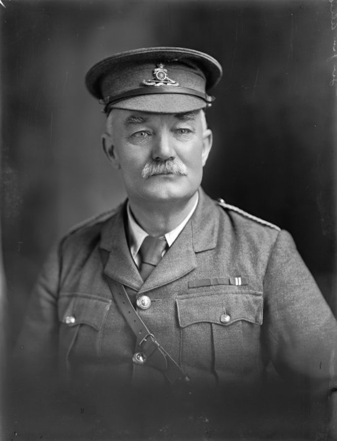 Photograph of Sir James Allen (1855-1942), Minister of Defence (1912-1920), taken by Herman John Schmidt of Auckland, New Zealand.